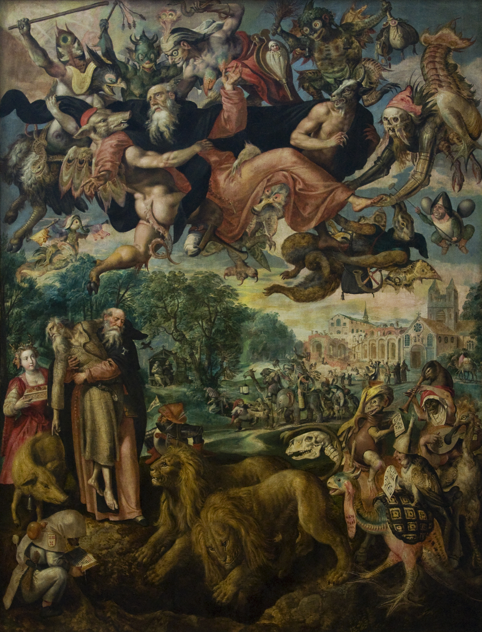 The Temptation of Saint Anthony